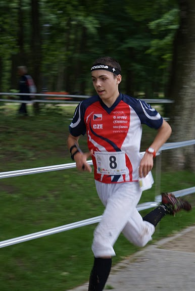 Filip Hadač at JWOC 2011 after Long distance.